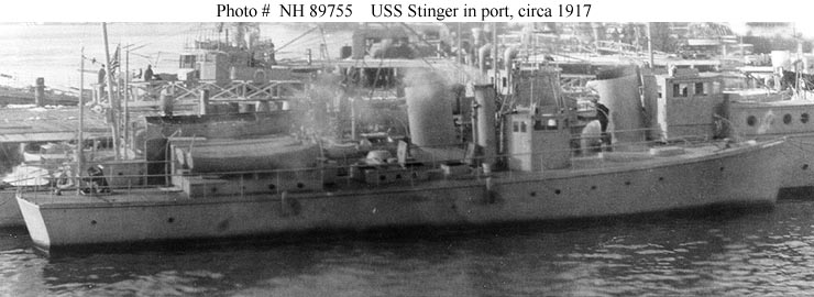 The United States Navy patrol vessel prior to the installation of her armament